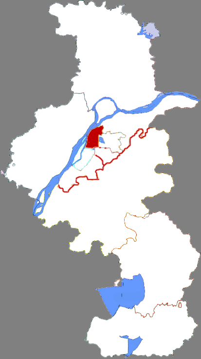 Location of Gulou district in Nanjing city, China